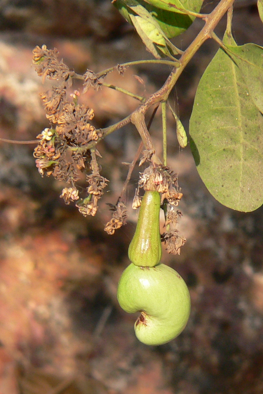 Cashew inflorescence with developing fruit.